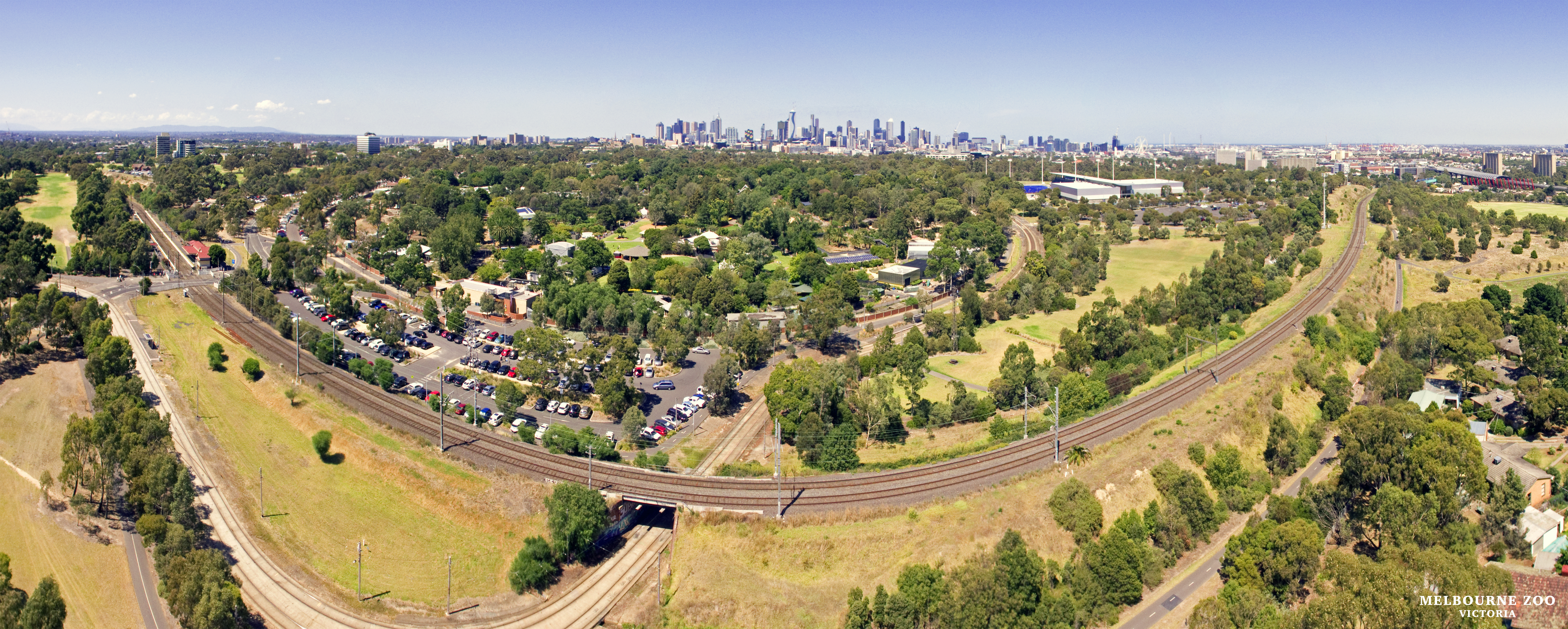 Aerial panorama of Melbourne Zoo. In the foreground is the train tracks at Royal Park station. The Melbourne CBD lies on the horizon.